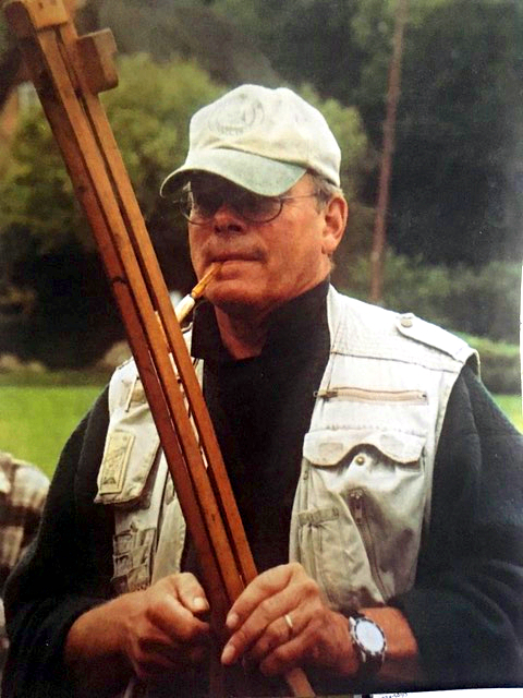 Charles Reid setting up his easel outside, as he often did.